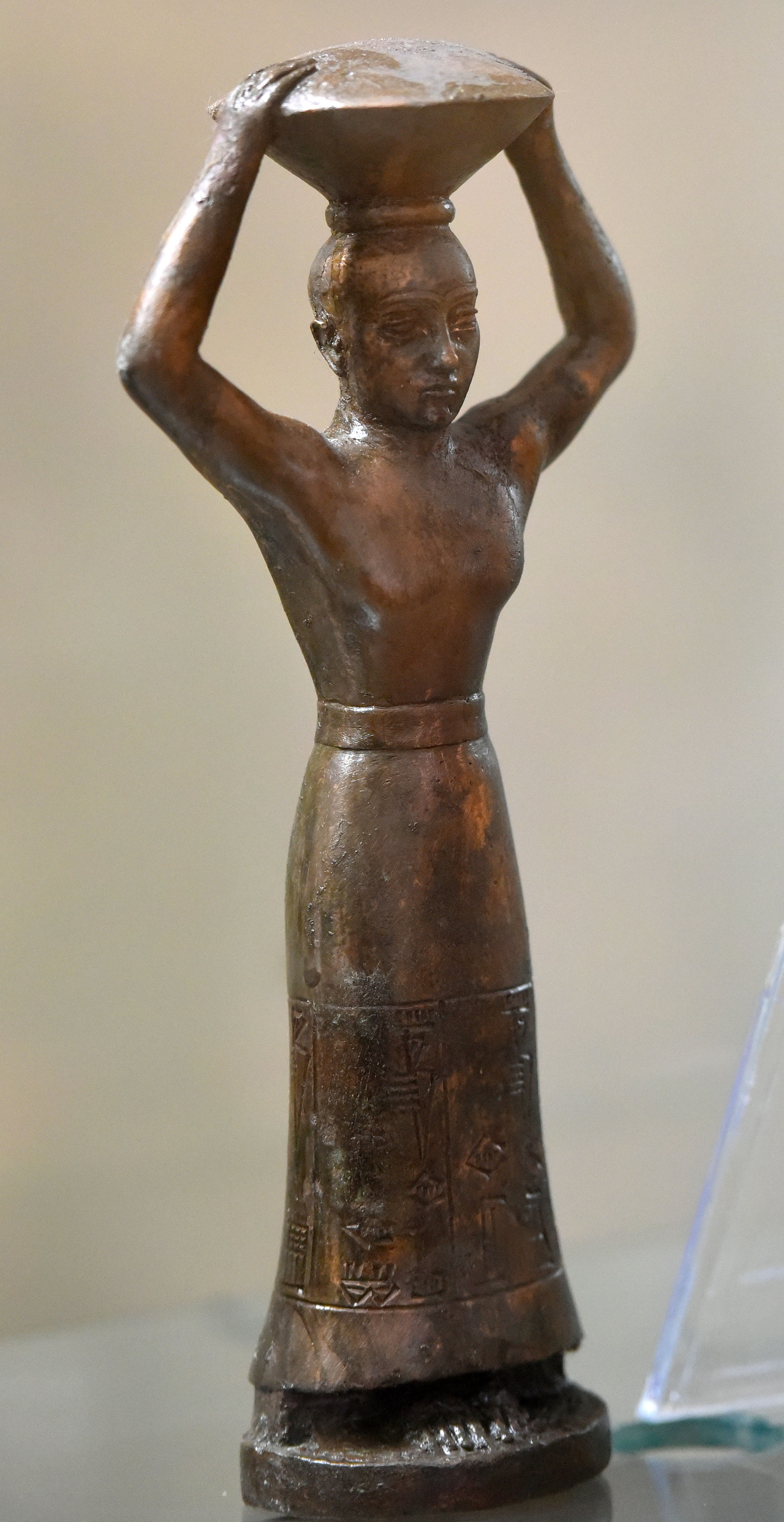 Foundation (of the E-kur of Enlil) figurine of Ur-Nammu (founder of the Neo-Sumerian 3rd dynasty of Ur), from Nippur, Iraq. Reign of Ur-Nammu, 2112 – 2095 BCE. Bronze. The figurine was found with an inscribed stone foundation tablet. The king bears a basket of clay on his head as the builder of the temple. On display at the Iraq Museum in Baghdad, Iraq.